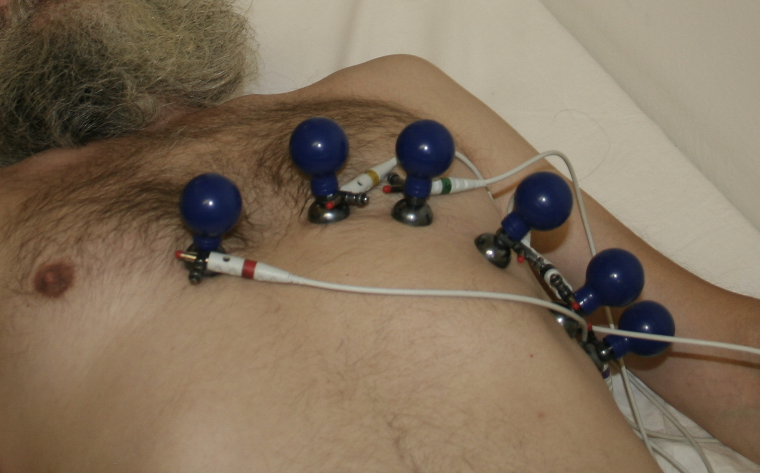 ECG device BTL-08 S ECG – placing precordial electrodes